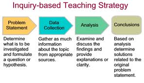 Inquiry based Teaching Strategy